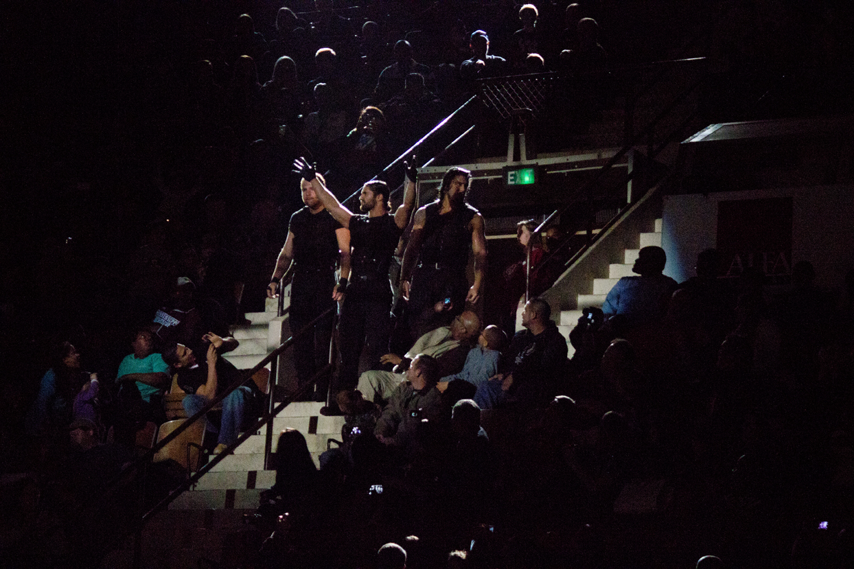 The Shield make their entrance during a WWE house show on February 2, 2013 in Montgomery, Alabama.